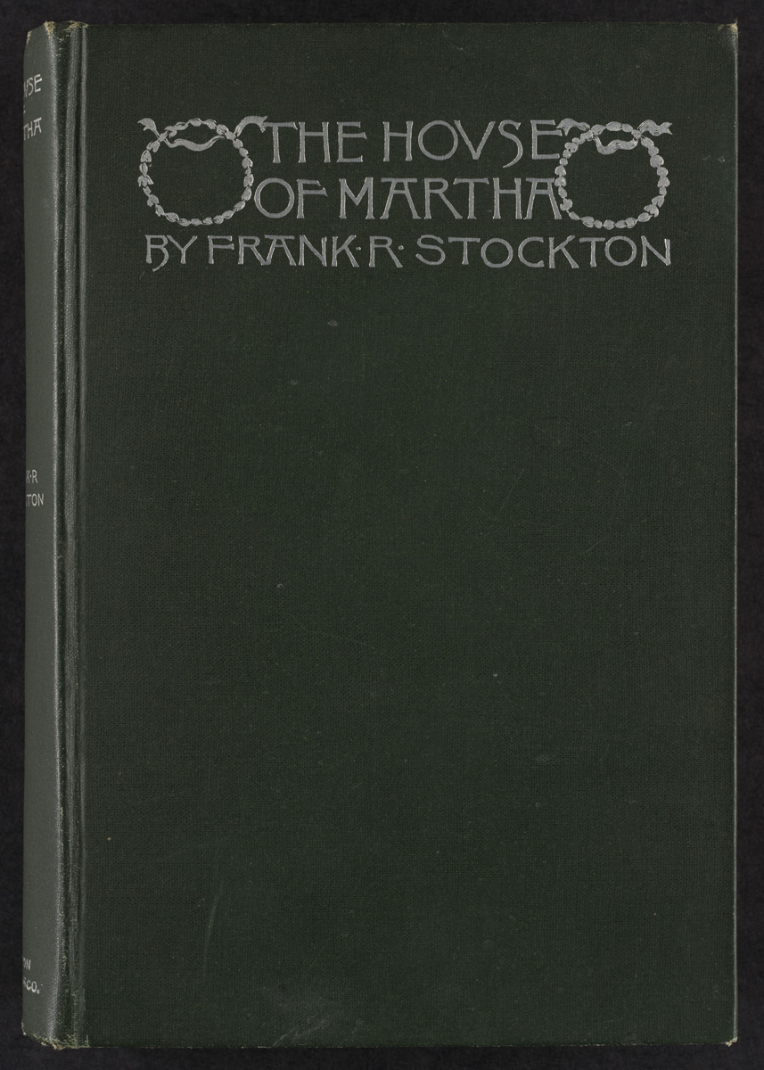 File name: 06_04_000128Title: STOCKTON(1891) Horatian echoesDate issued: 1891Genre: Book coversNotes: Stockton, Frank Richard, 1834-1902 (Author)Collection: Sarah Wyman Whitman BindingsLocation: Boston Public Library, Special CollectionsRights: No known copyright restrictions.